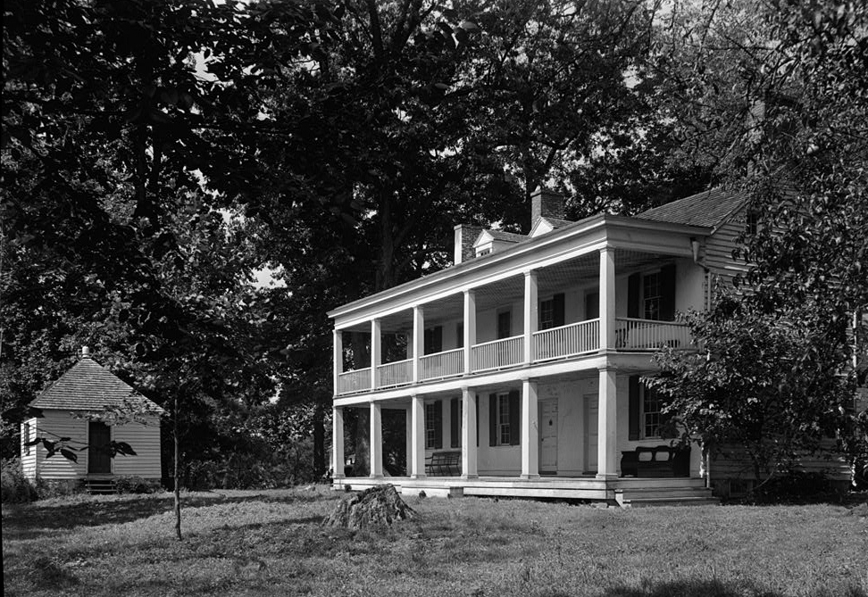 Mount Adams, also known as The Mount — near Creswell, Maryland, USA. Cropped. On the National Register of Historic Places. Image courtesy of the federal HABS—Historic American Buildings Survey of Maryland.